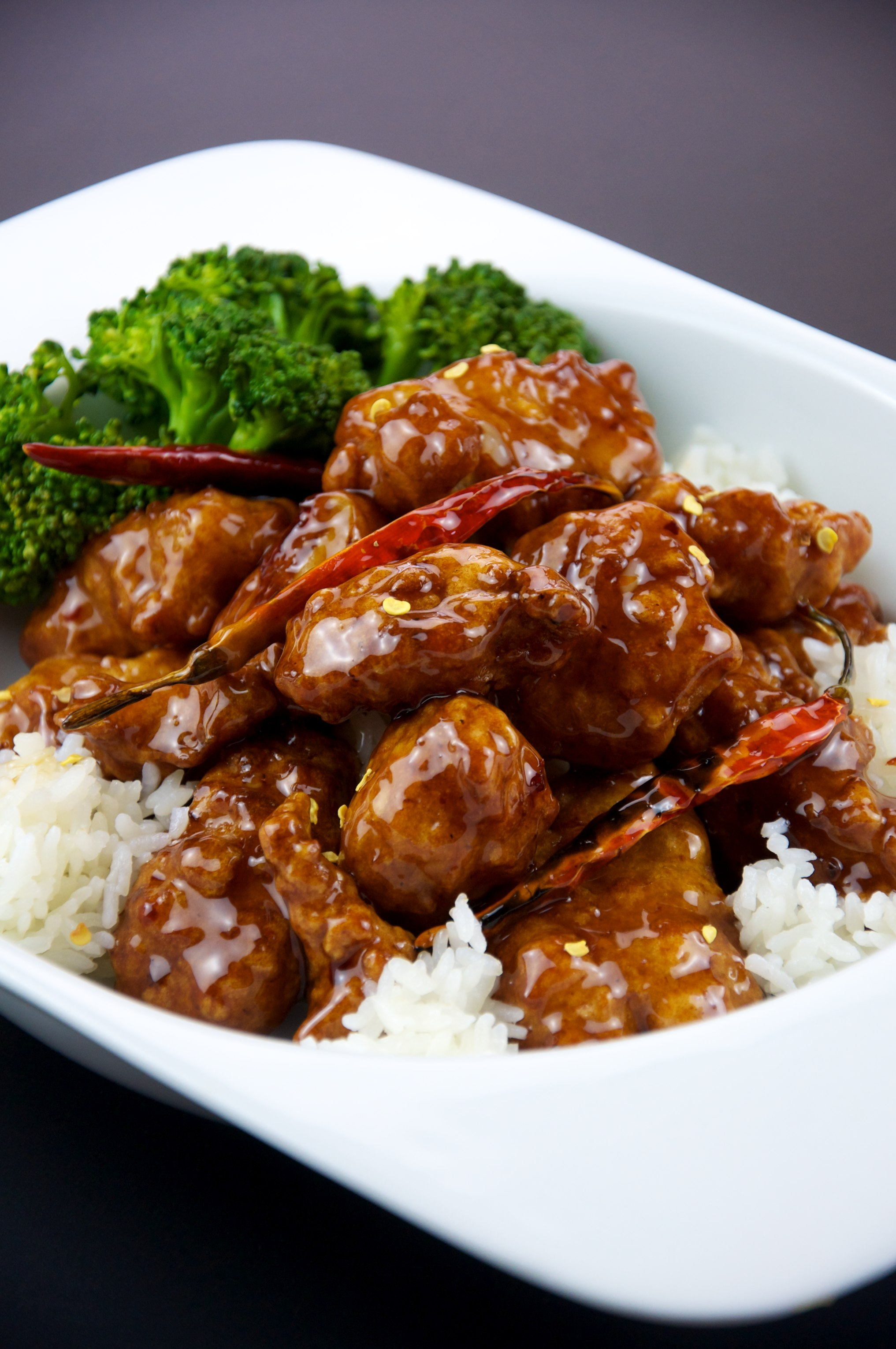 General Tso's Chicken on a bed of white rice with broccoli. Photographed in the Oakmore neighborhood of Oakland, California, USA.